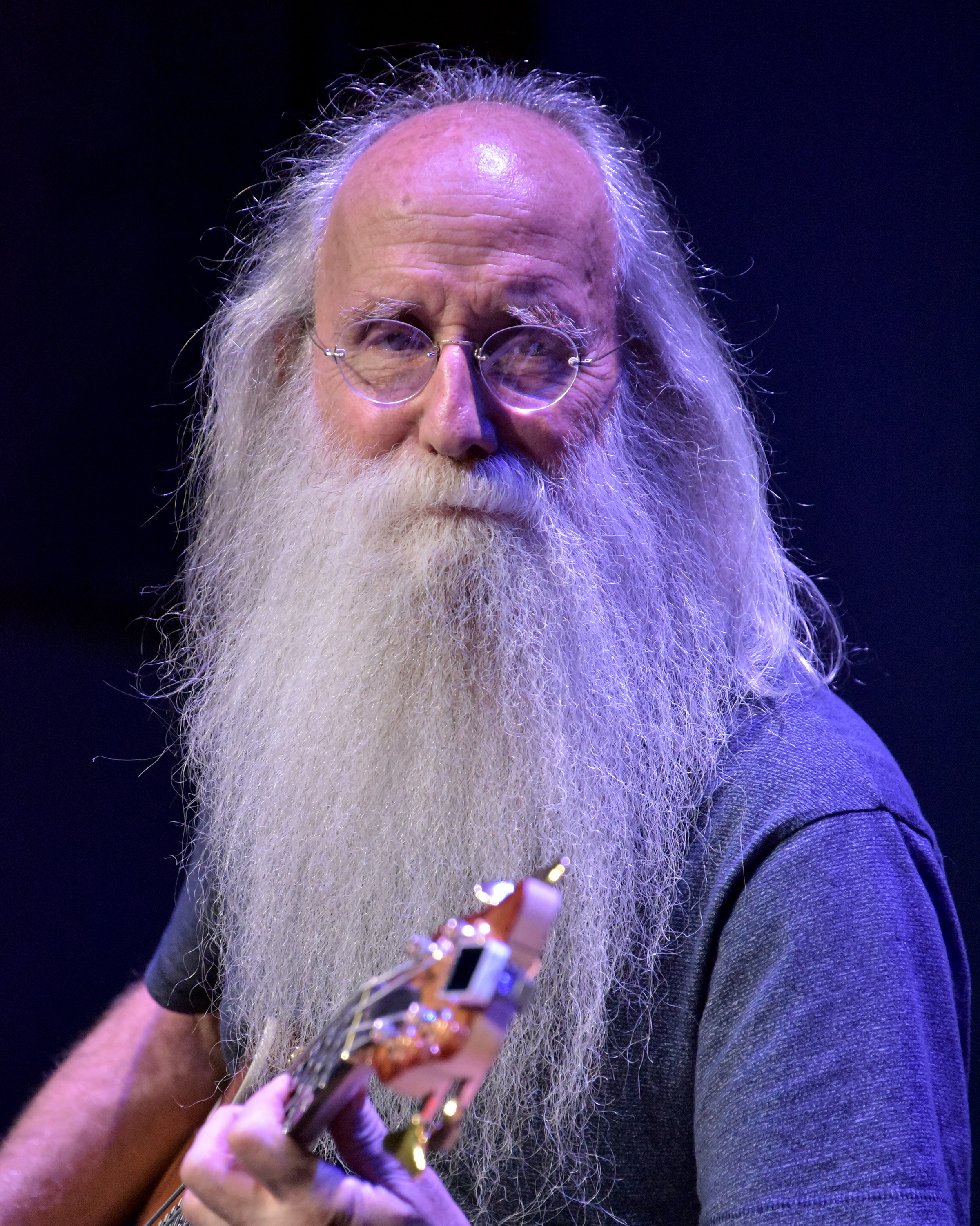 Leland Sklar, Mission Viejo, California on April 15, 2017 - Photo by Glenn Francis of